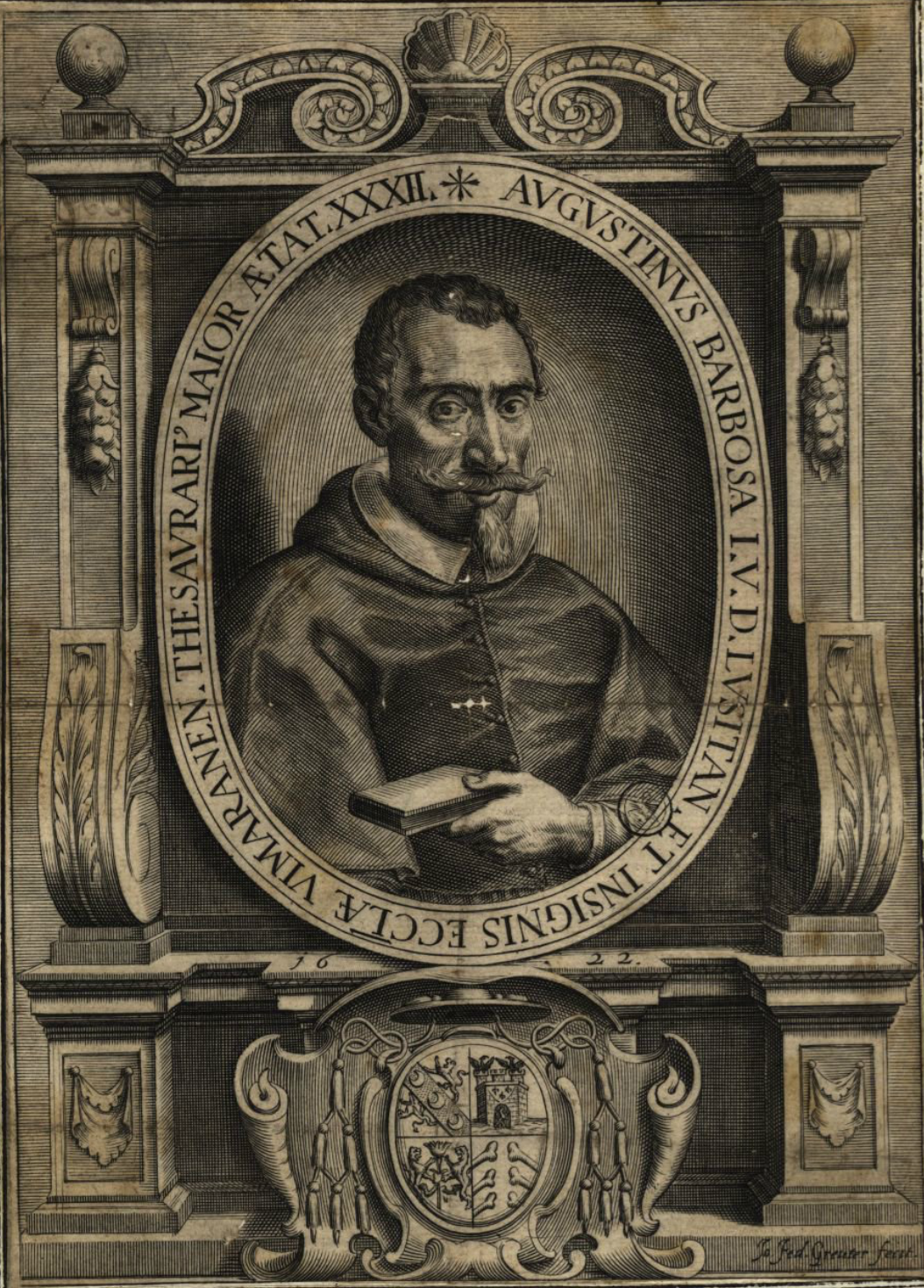 Agostinho Barbosa (1589-1649), Portuguese lexicographer, jurist, and bishop. Prolific author on canon law.